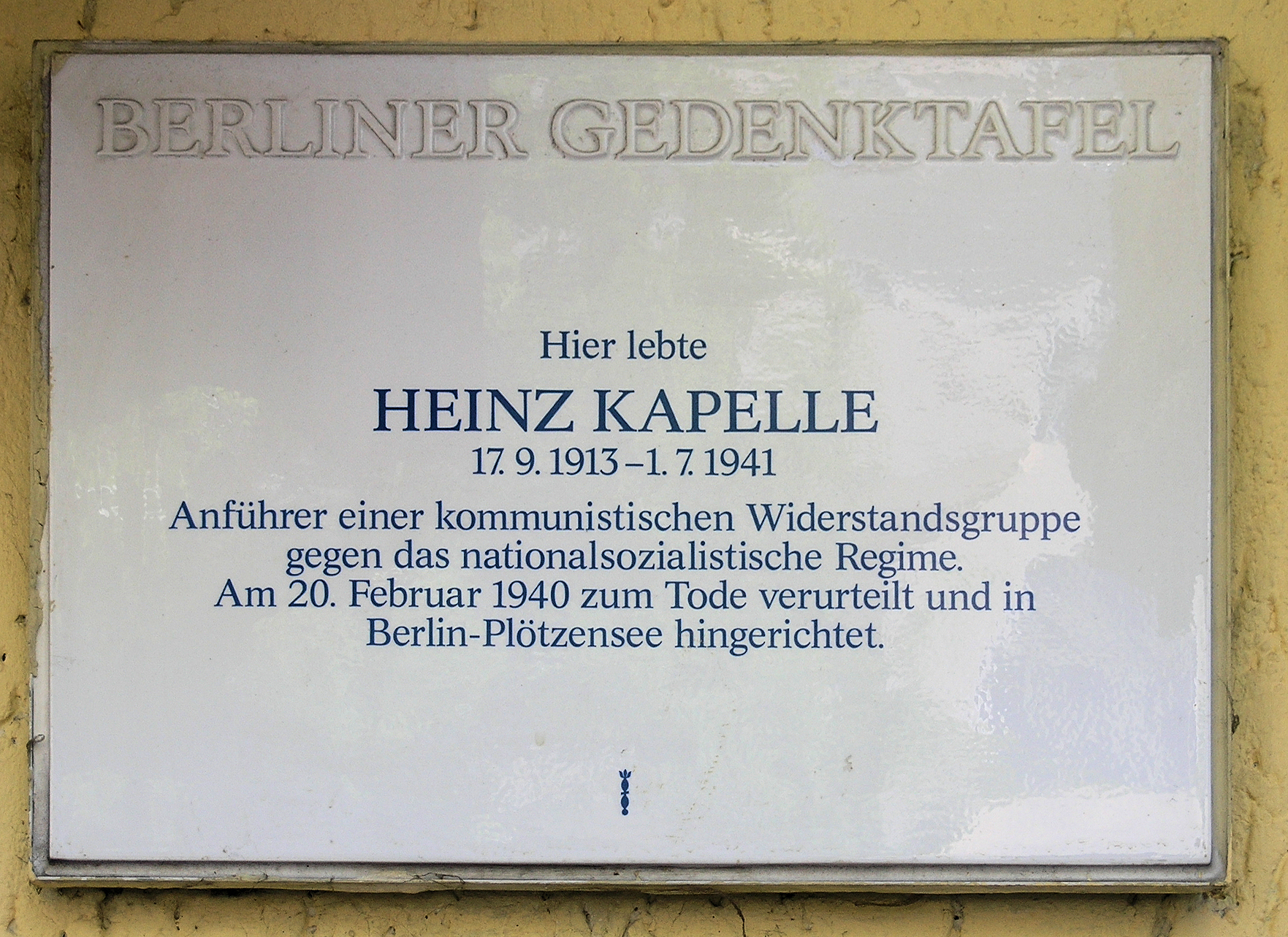 Berlin memorial plaque, Heinz Kapelle, Weserstraße 168, Berlin-Neukölln, Germany